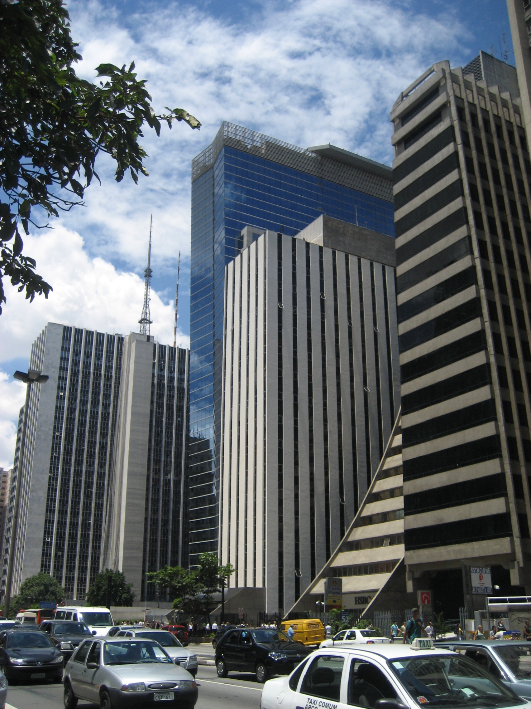 Avenida Paulista in Sao Paulo, Brazil